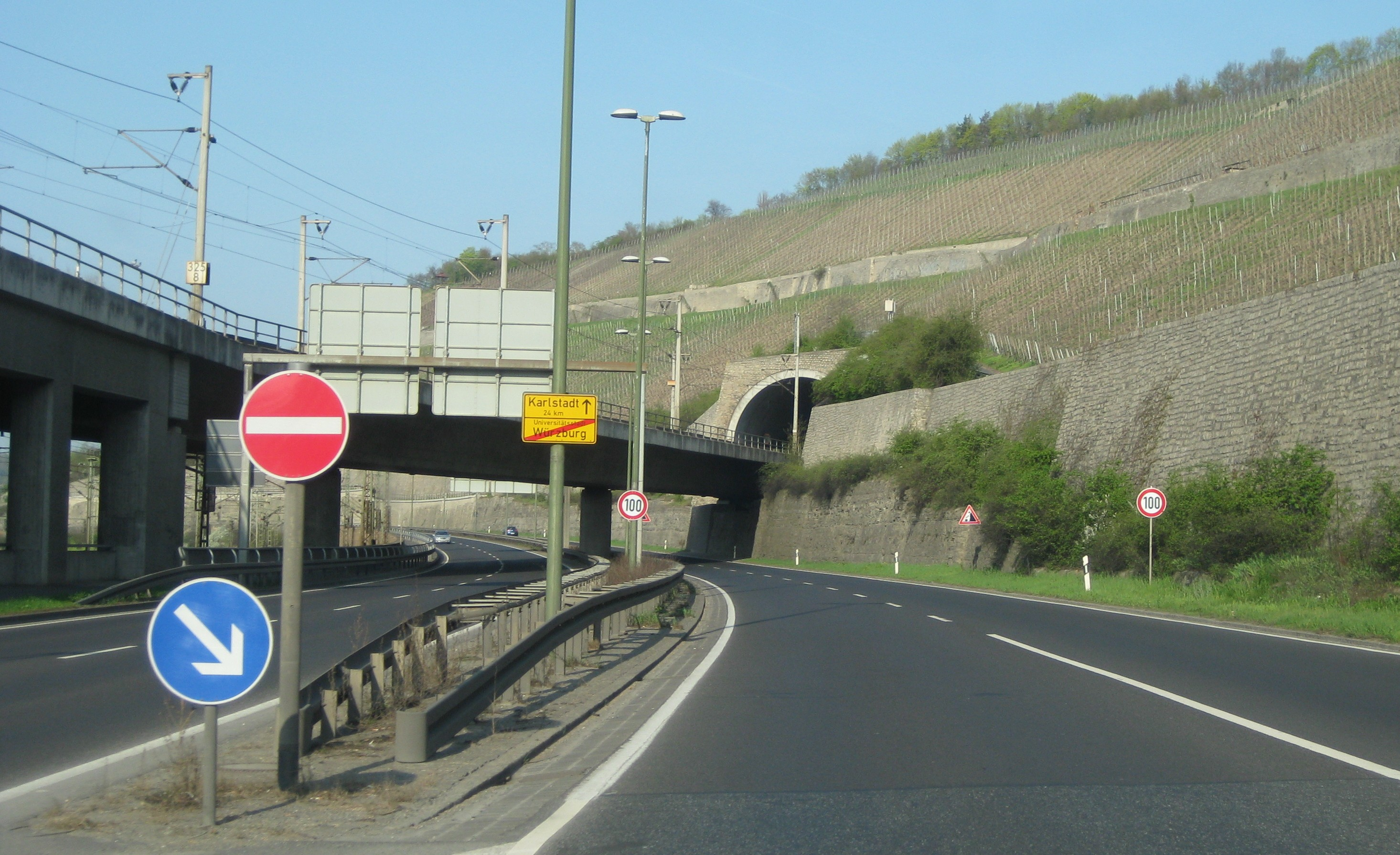 Entrance of Steinberg Tunnel from Wurzburg, Germany. Picture taken from B27